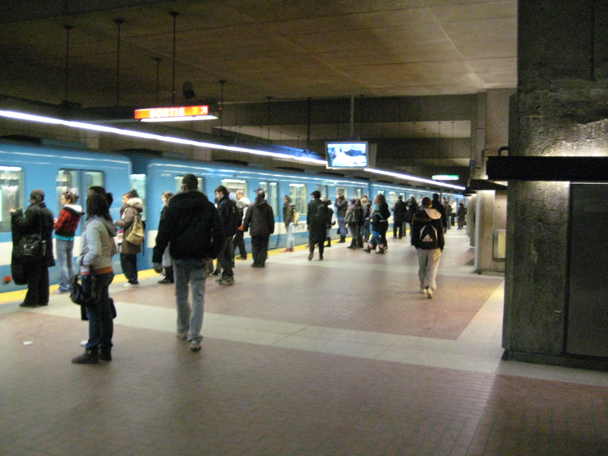 Honore Beaugrand Metro Station, Montreal